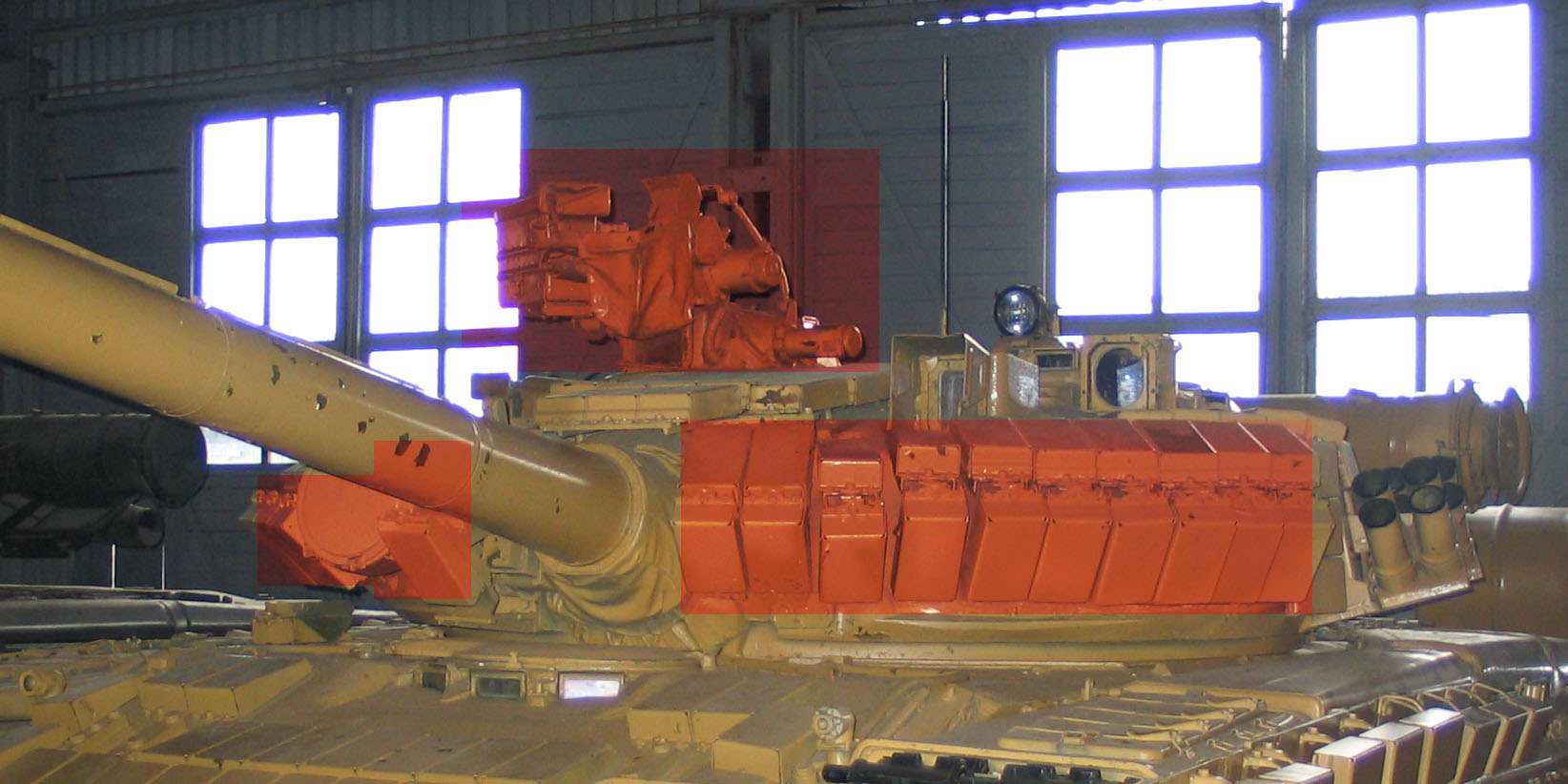 Object 219A in museum in Kubinka.